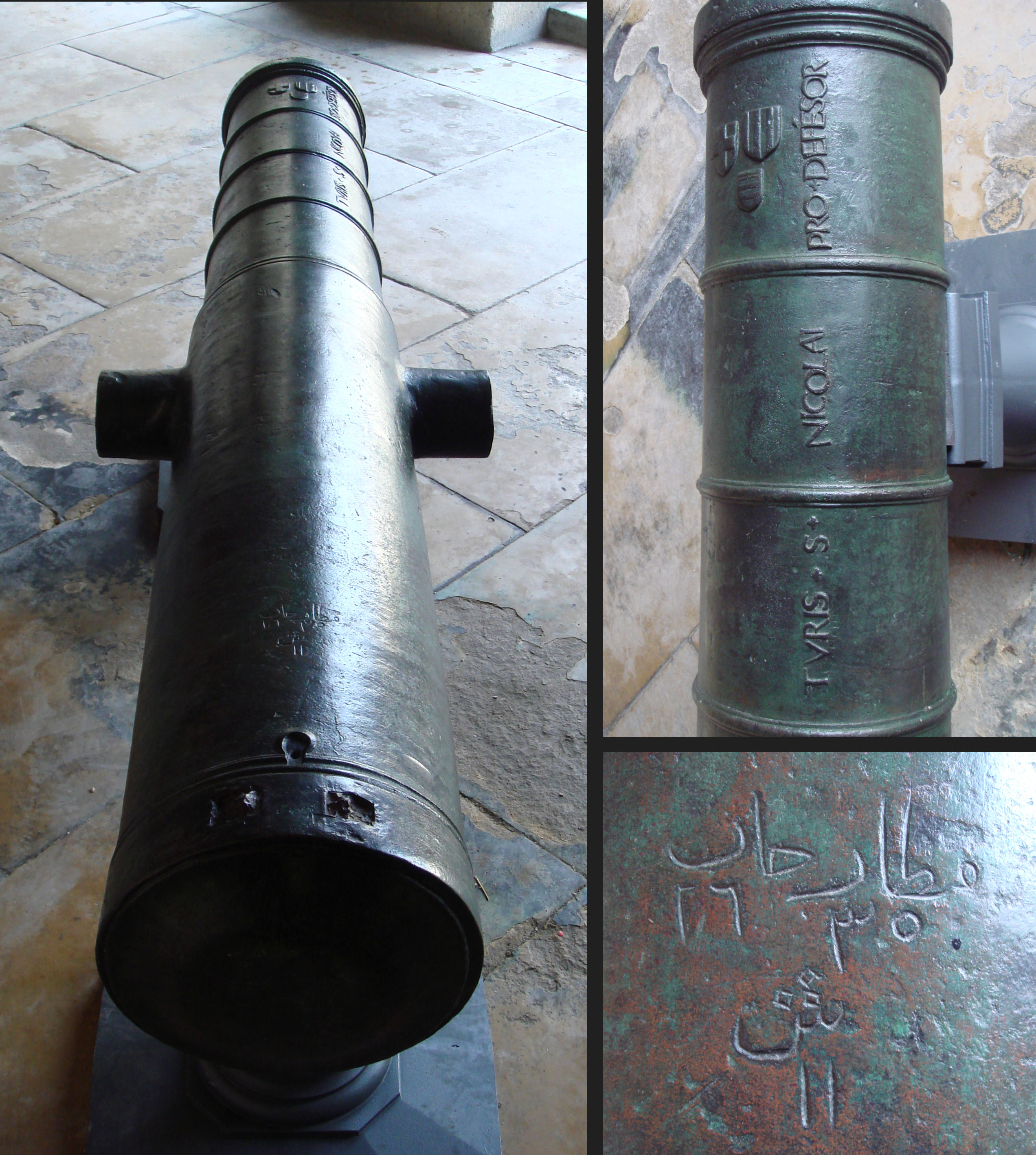 Cannon_1510_of_the_Hospitallers_at_Tour_Saint_Nicolas_Rhodes_arms_of_Emery_d_Amboise_with_arabic_inscription_230mm_255cm_1427kg.